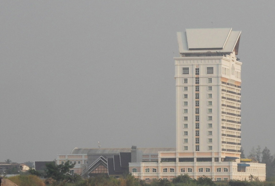 Don Chanh Palace, Vientiane, Laos, feb. 2010 : still the tallest building in Vientiane.